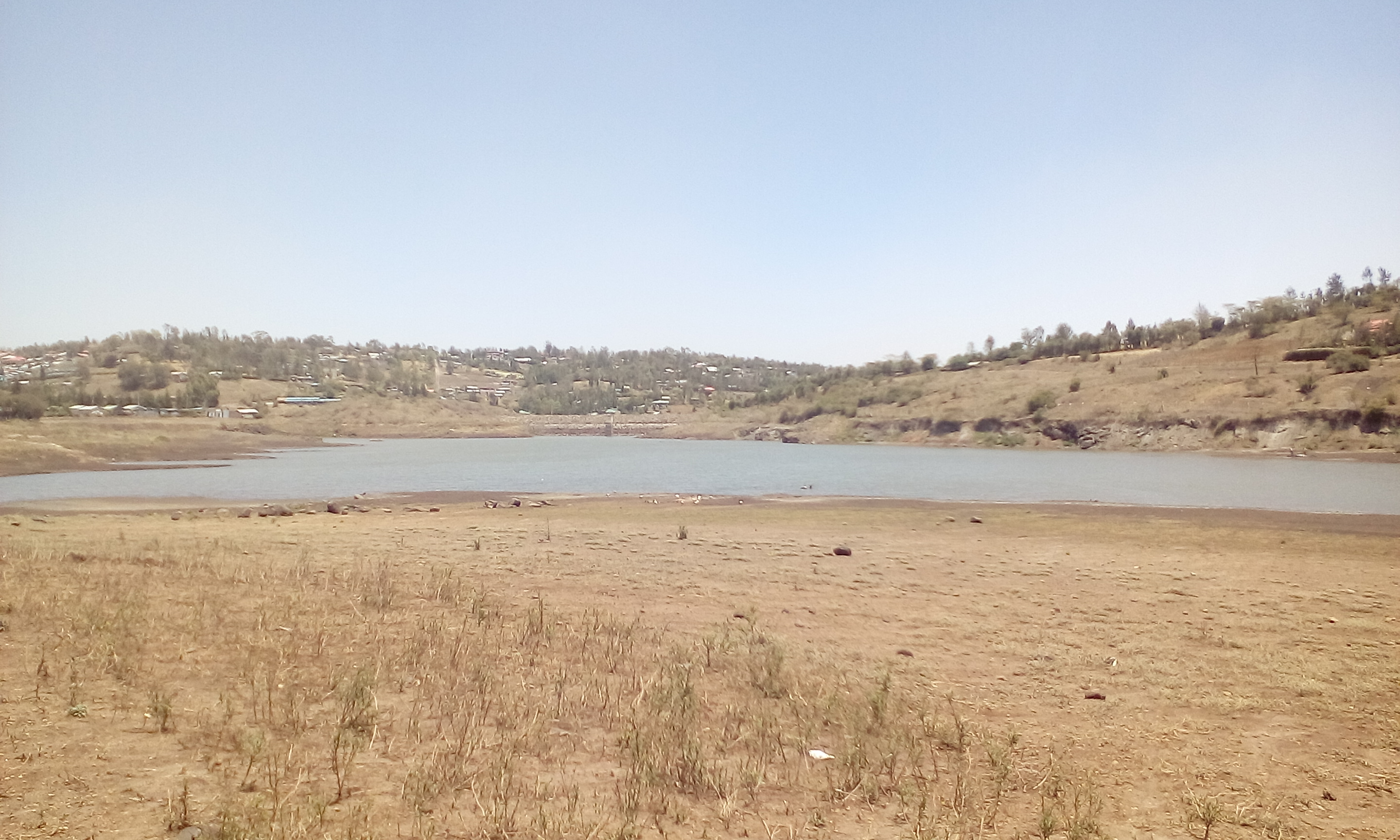 This photo shows kiserian dam and the straight to the water barrier block